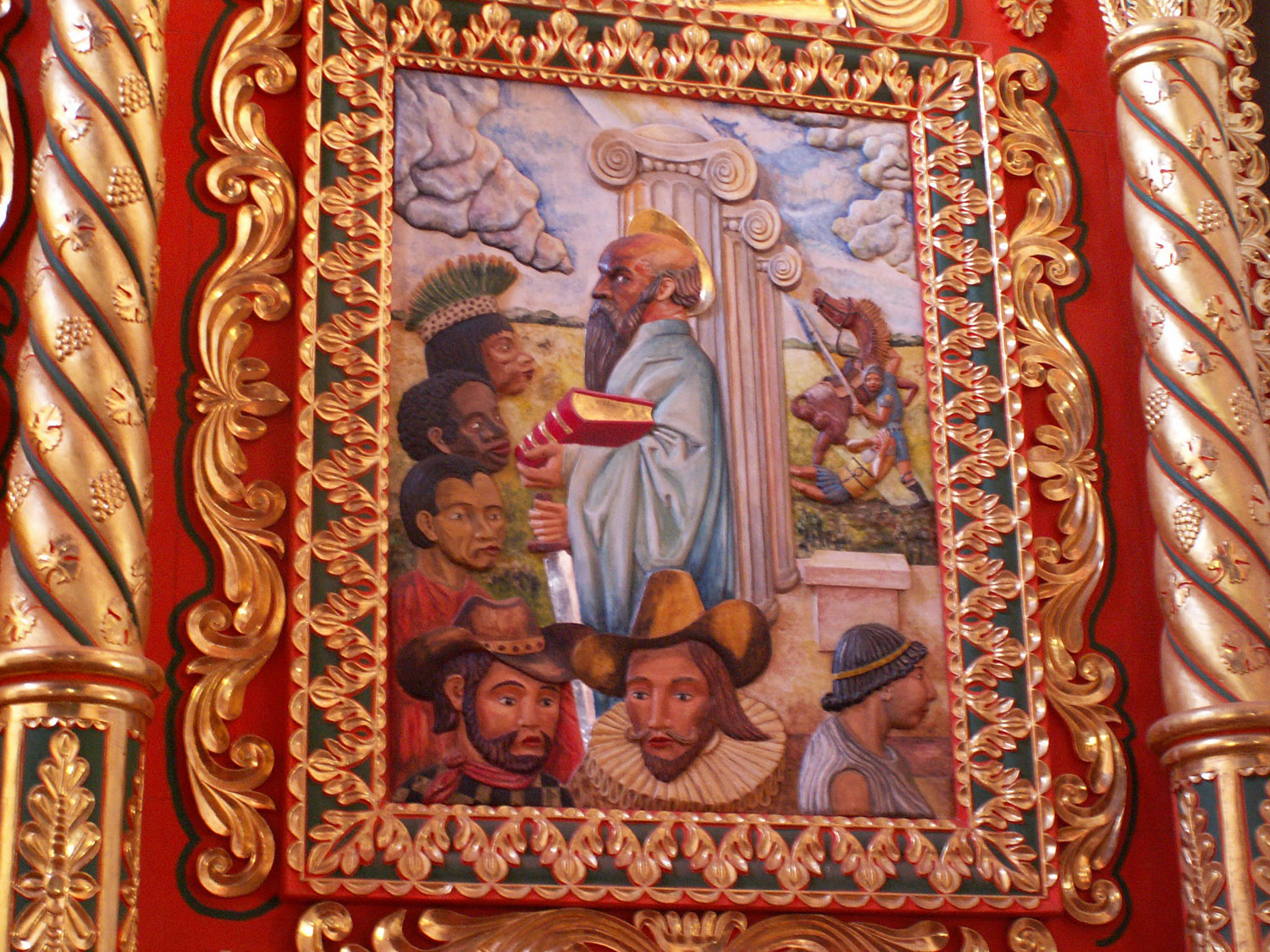 Image by Daan. Church in Concepción, Santa Cruz, Bolivia. Part of the Jesuit Missions of the Chiquitos World Heritage Site.